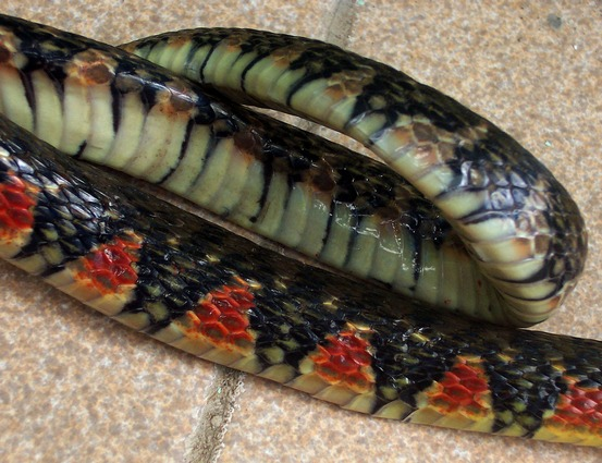 Xenochrophis trianguligerus from Darmaga, Bogor, West Java, Indonesia